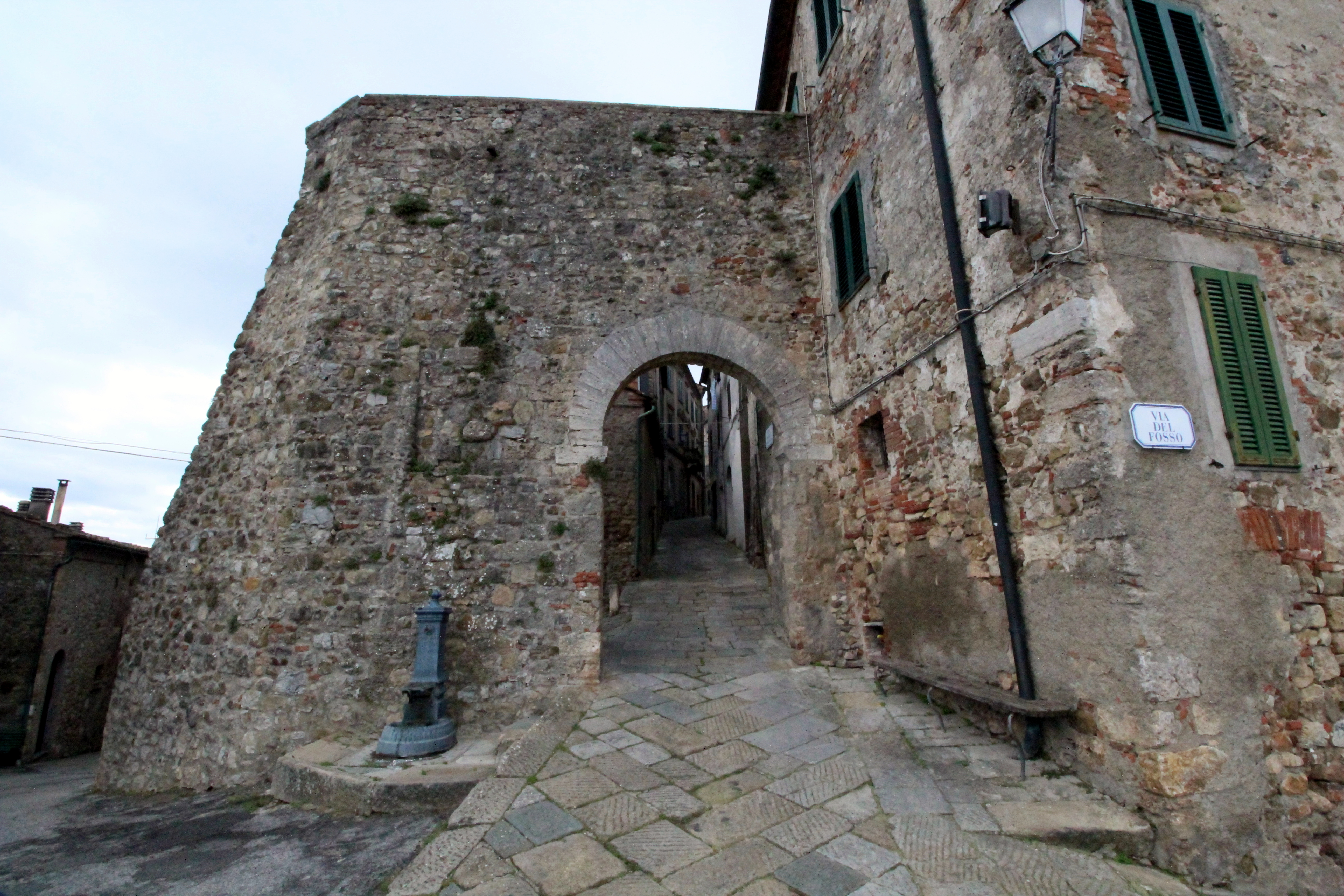 Defensive Gate Porta Senese (also Porta Bacucchi) in Chiusdino, Val di Merse, Province of Siena, Tuscany, Italy